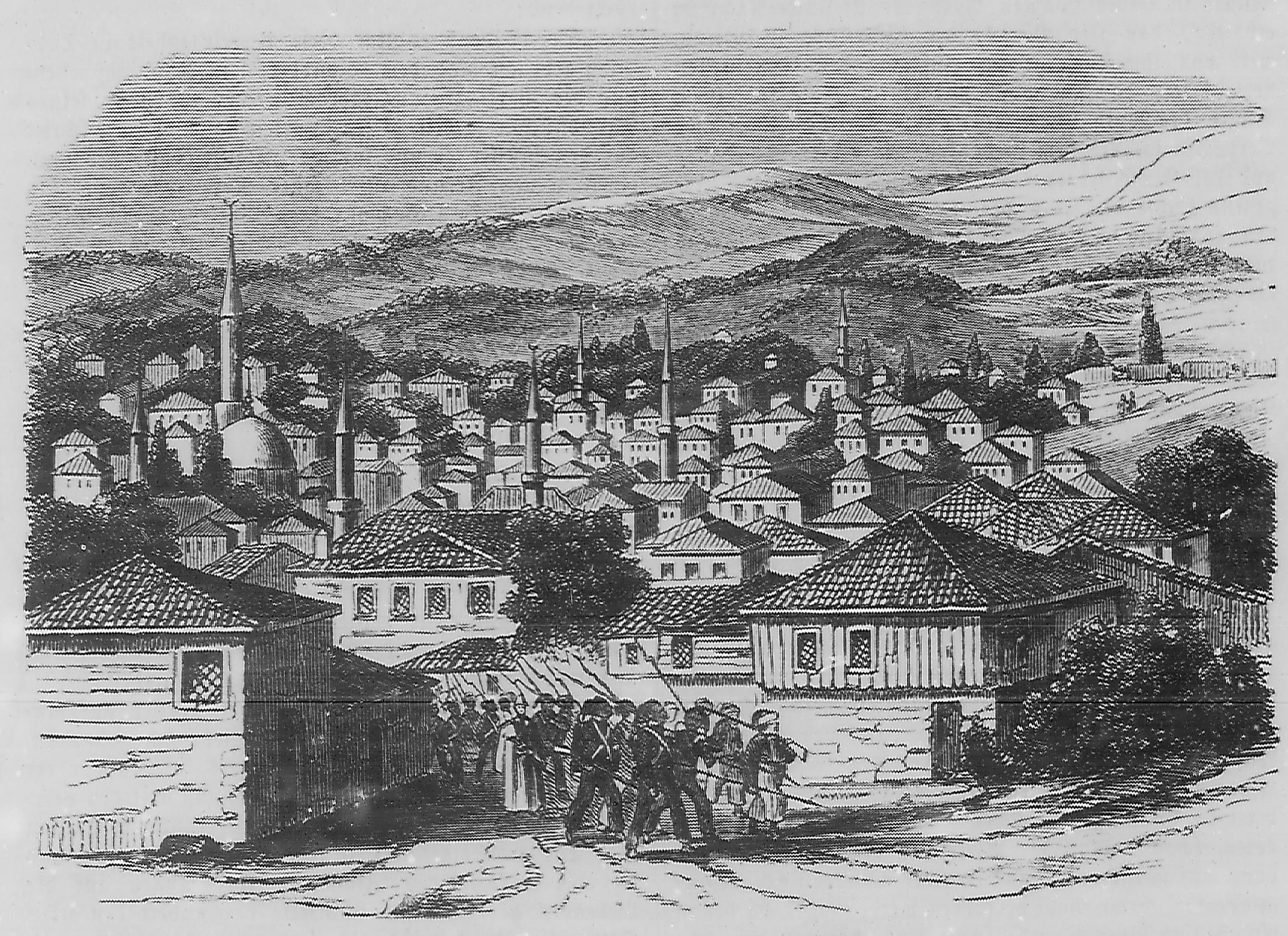 caption: "Schumla, das Hauptquartier von Omer Pascha."